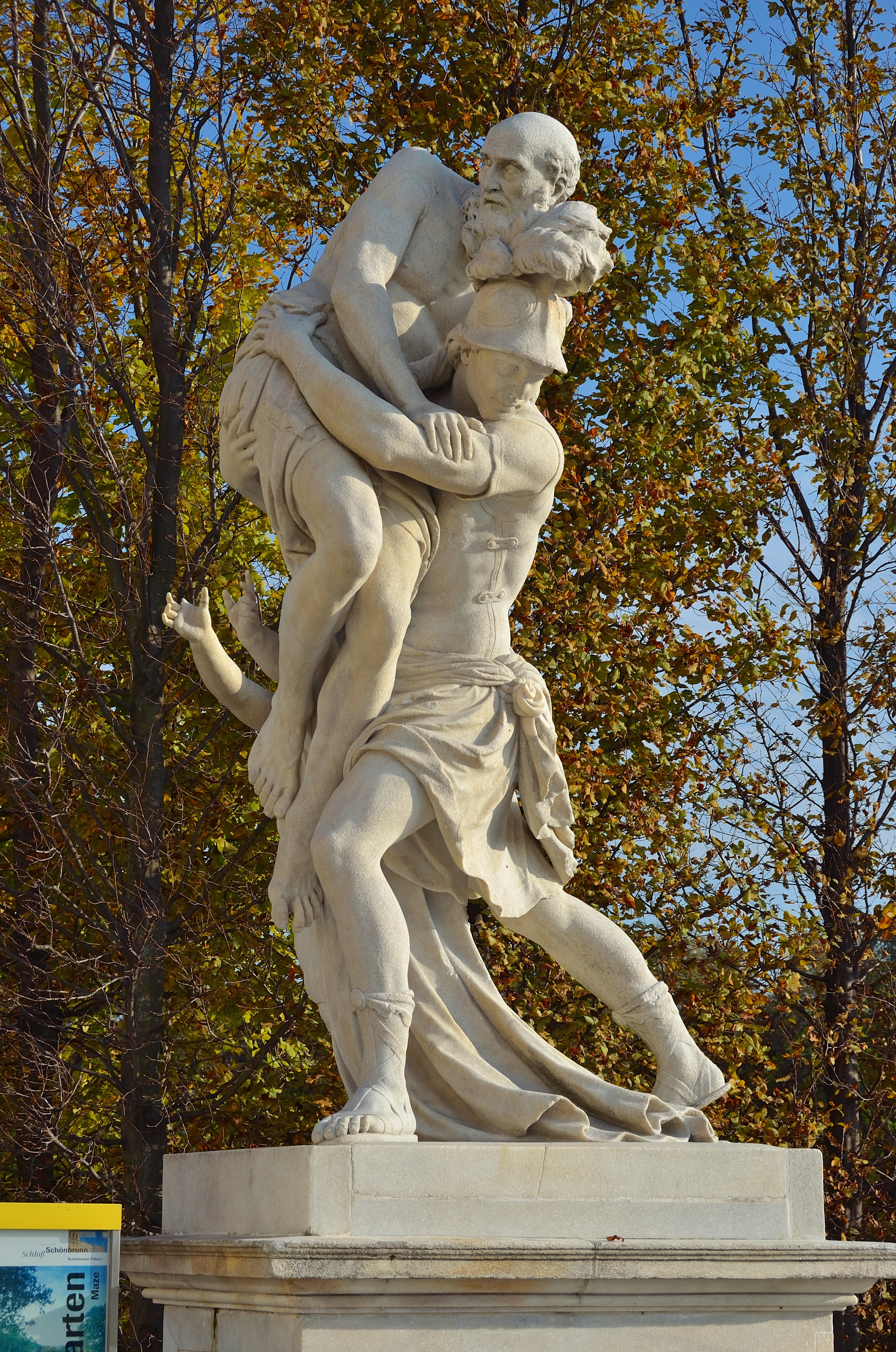 Eine der 32 Statuen am großen Parterre, Nr. 5. Aeneas&Anchises, Flucht aus Troia, von Philipp Jakob Prokop.